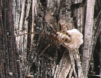 female Coleosoma floridanum with eggsac from Okinawa.